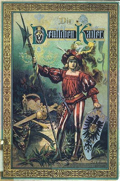 This is a scan of the historical document